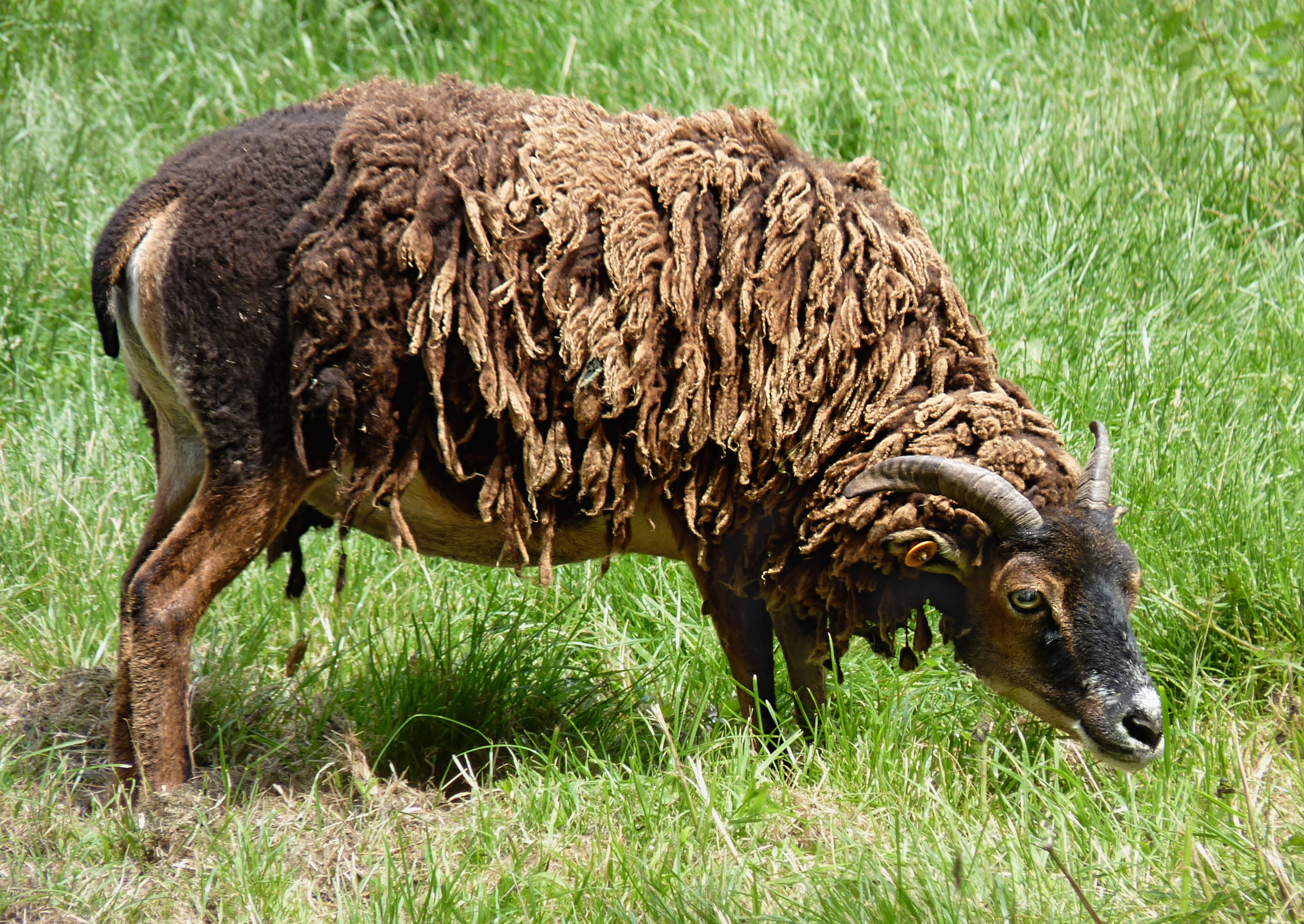 Soay sheep, picture taken in Belgium.